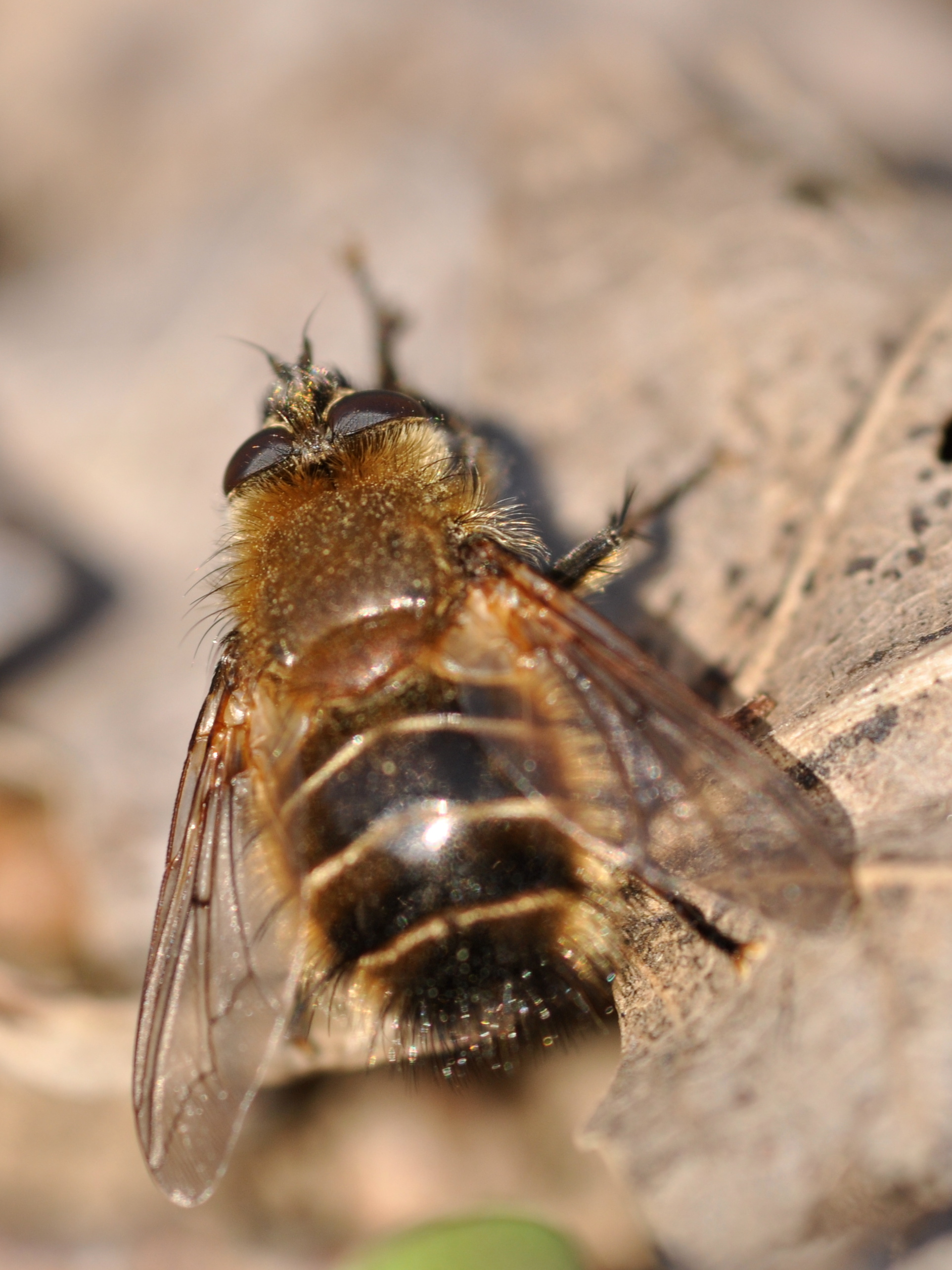 Tachinid fly Tachina ursina in Kirchwerder, Hamburg.